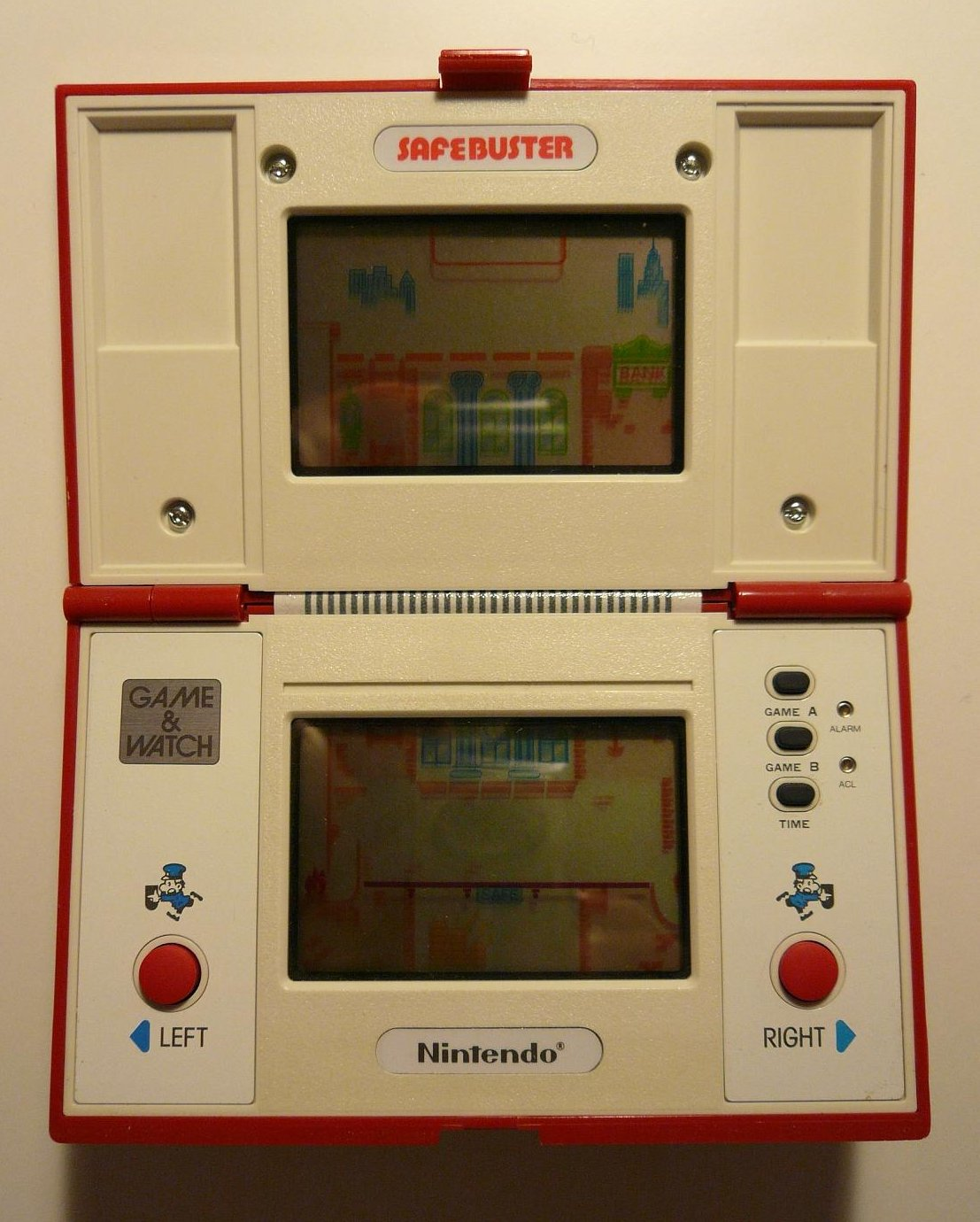 SafeBuster - Game&Watch - Nintendo